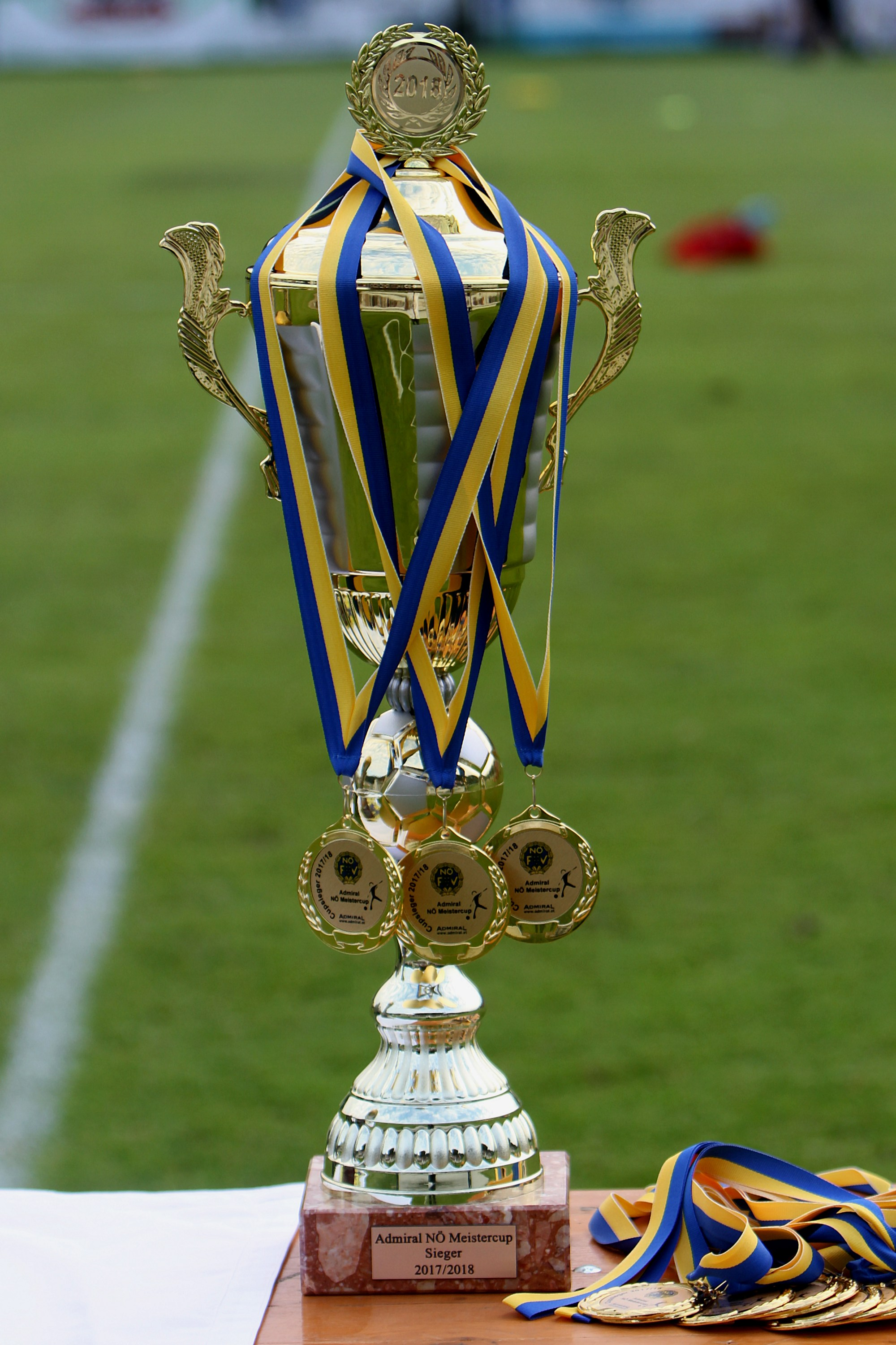 Final of the Lower Austrian Footballcup USV Scheiblingkirchen-Warth (red shirts) vs. USC Rohbach/Gölsen (white shirts) in the "Pittentalstadion" in Scheiblingkirchen. – The photo shows the cup for the winner of the Niederösterreichischen Fußballcup 2017-18 and the medals for the winner team.